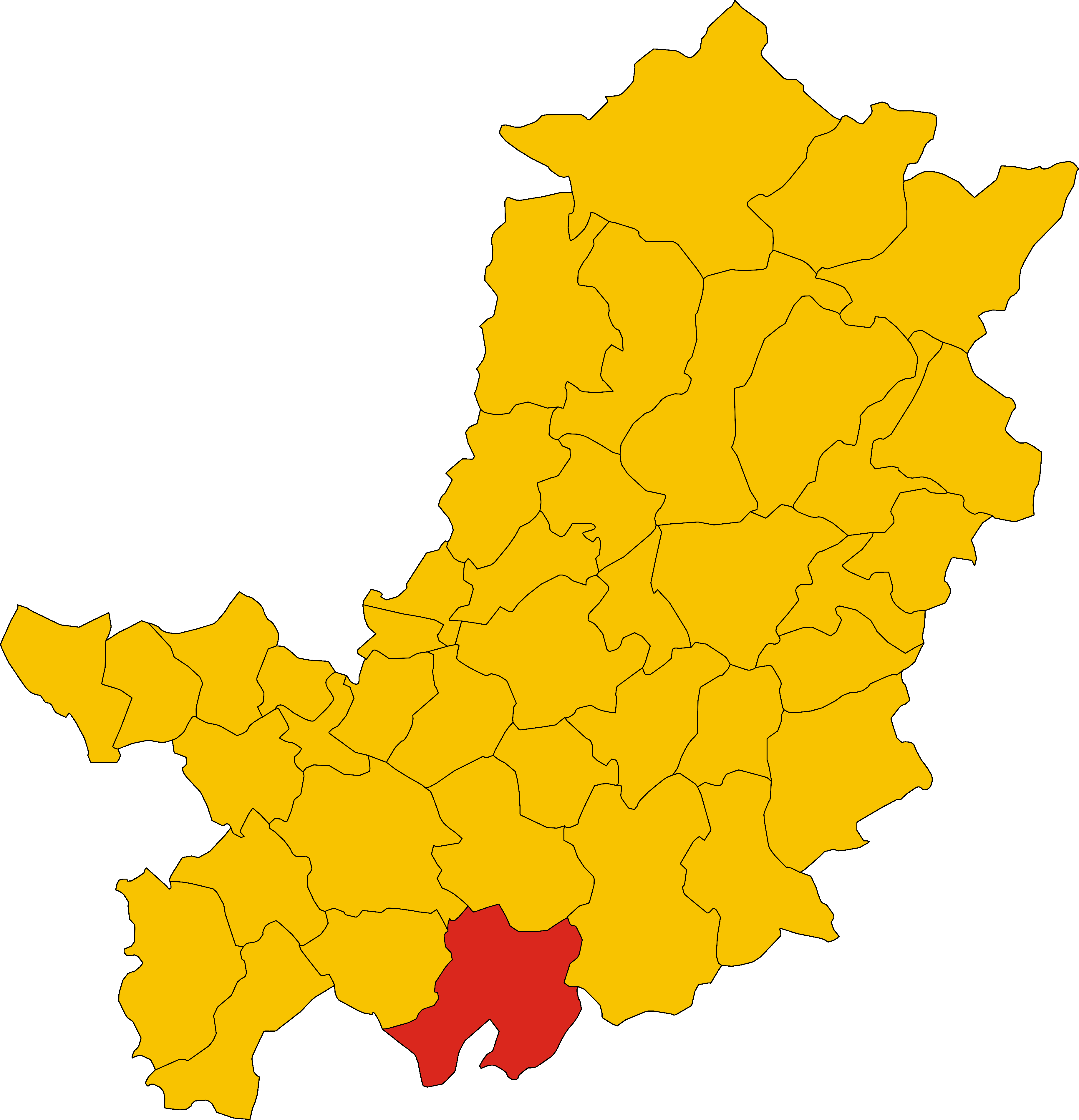 Map of the municipality (comune) of Barberino Tavarnelle (province of Florence, region Tuscany, Italy)